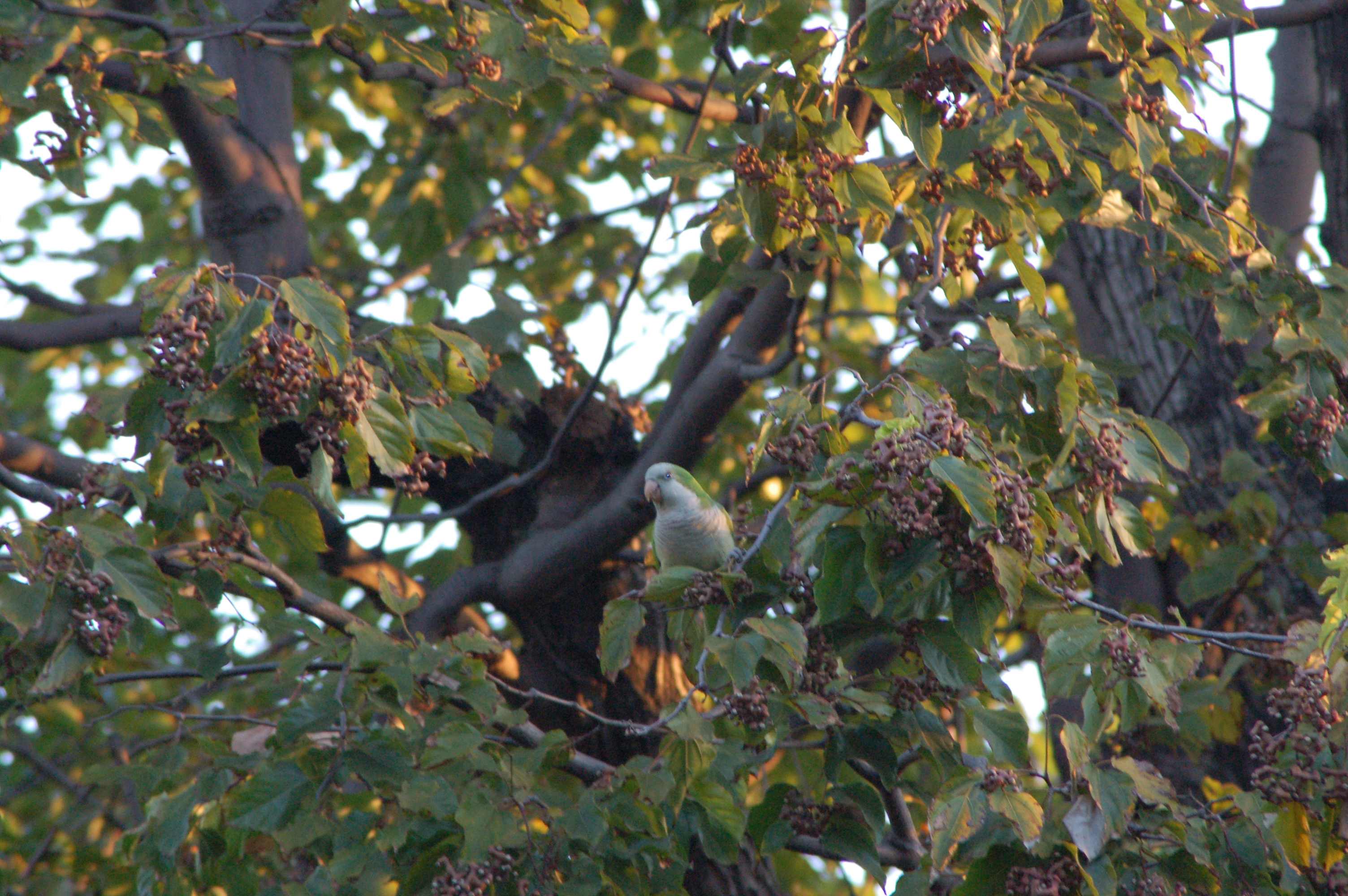 Monk Parakeet, also known as the Quaker Parrot, in a tree in Paraguay.